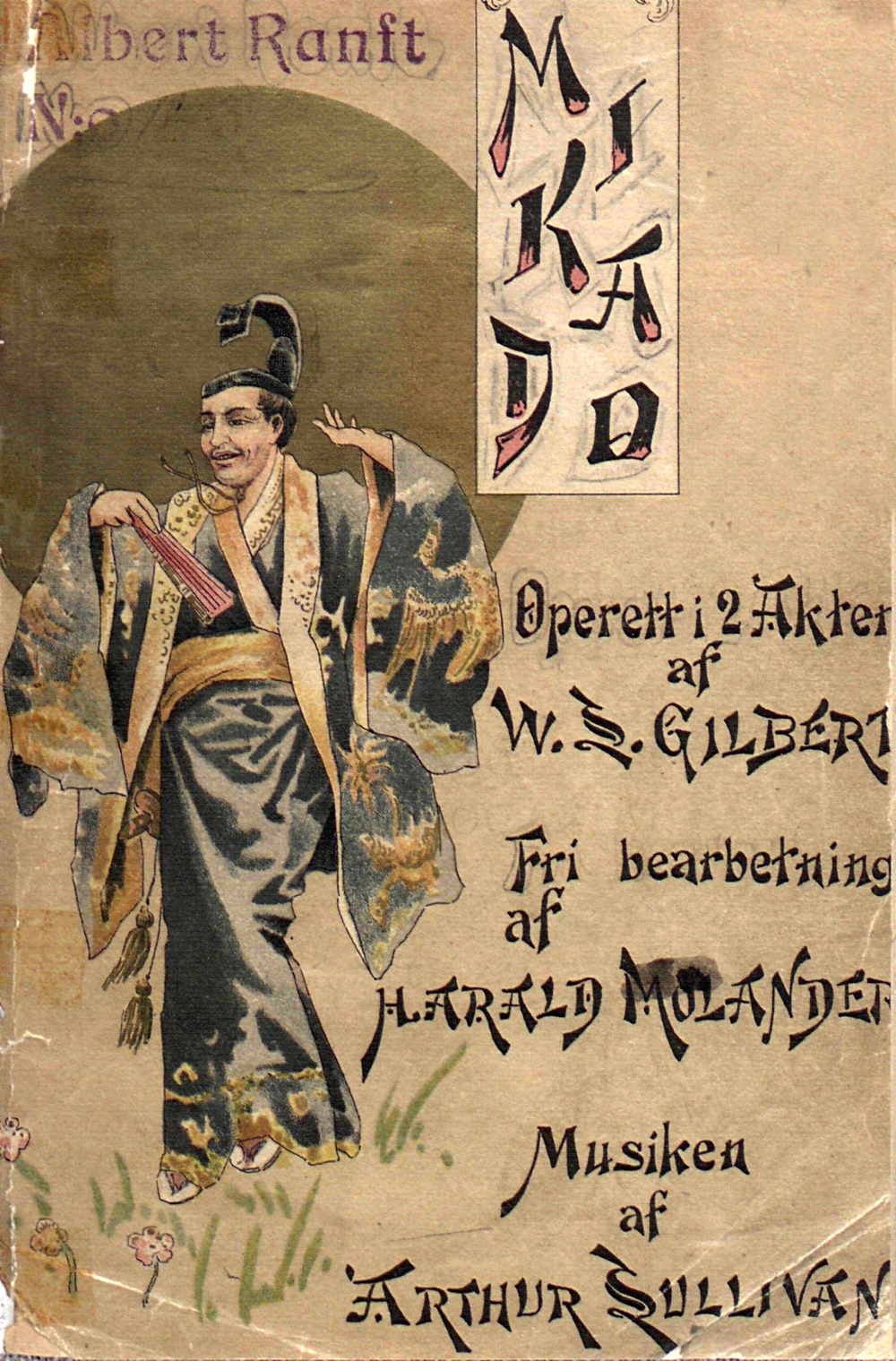 Mikado. Cover to the Swedish translation of the operetta by Gilbert and Sullivan.